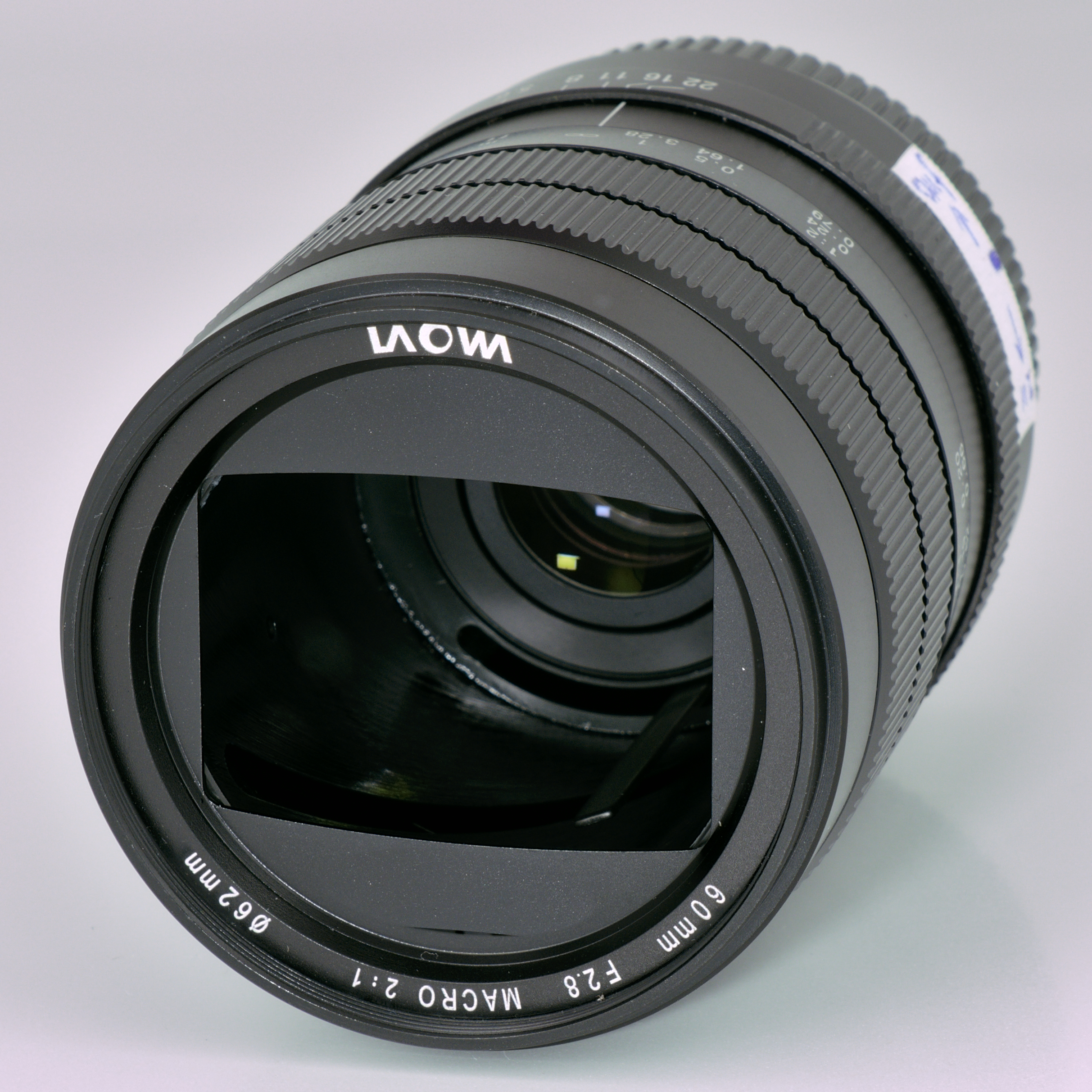 Macro lens